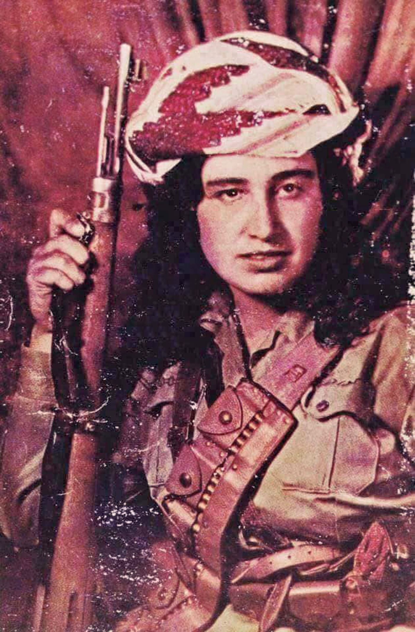 Margrêt Corc, yekem pêşmergeya kurd